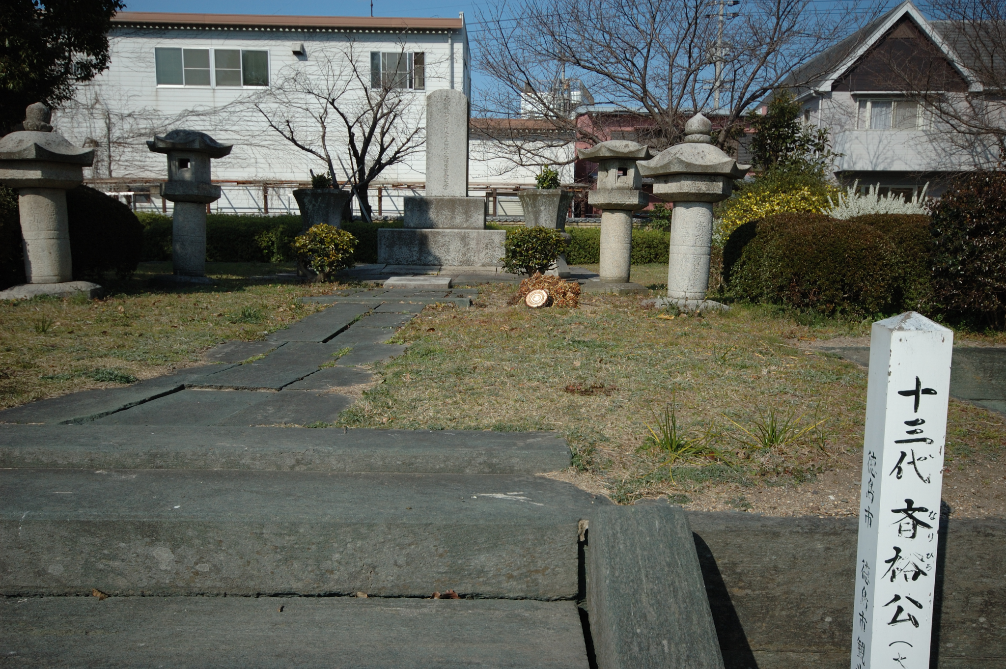 grave of Hachisuka Narihiro(the thirteenth feudal lord)